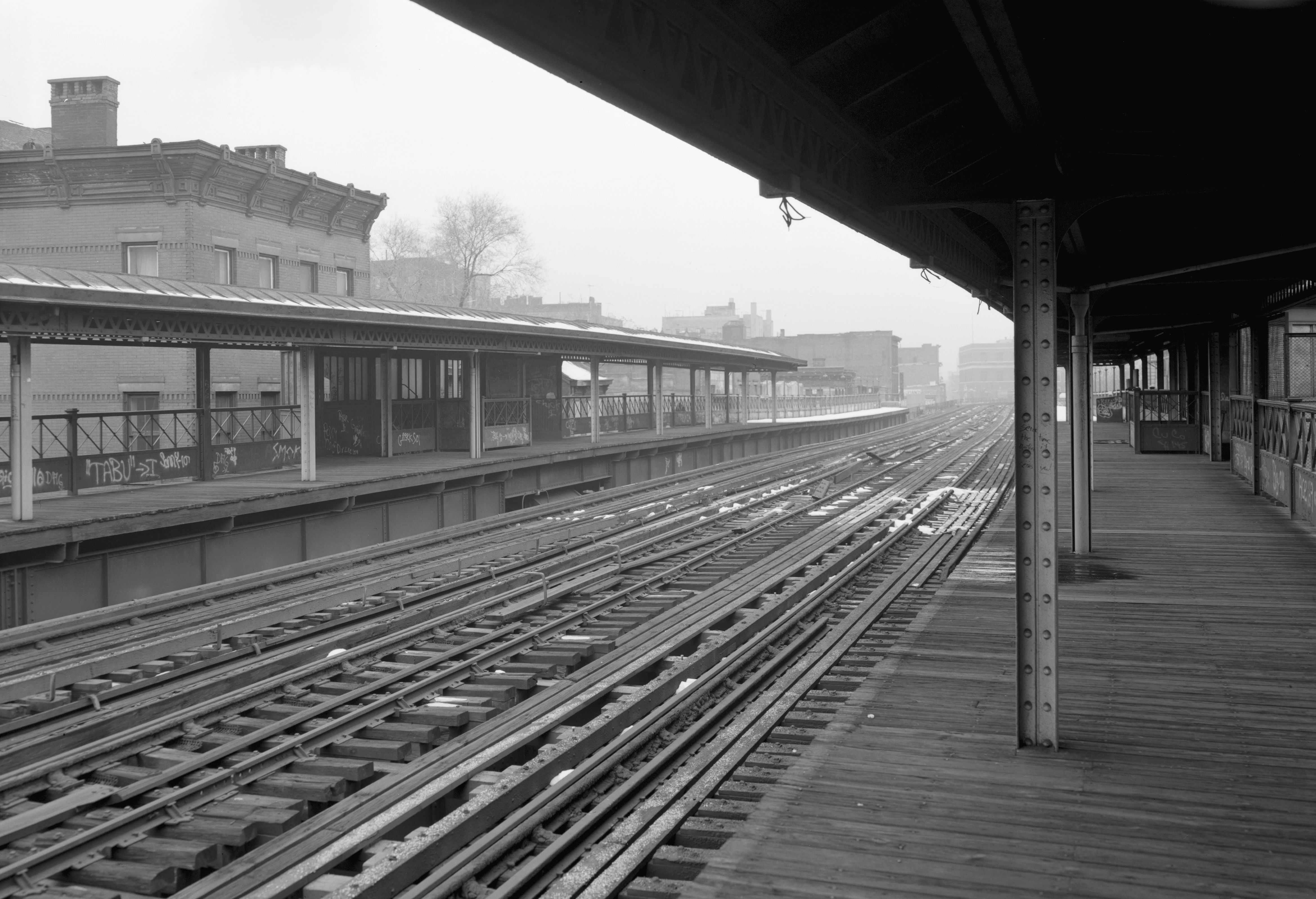 156th Street station on the IRT Third Avenue Line in 1974, just a few months after the line was closed down.This picture shows the typical track arrangement of a three-track local station on an elevated line with two side platforms and canopies halfway down the station.Moreover, one can see the beginning of the slow decline of the New York City Subway. The roof leaks, and on the opposite platform, the graffiti that would plague the MTA for the next decade has begun to appear. It is not clear whether the lamps have been stolen or intentionally destroyed by vandals, as frequently occurred.